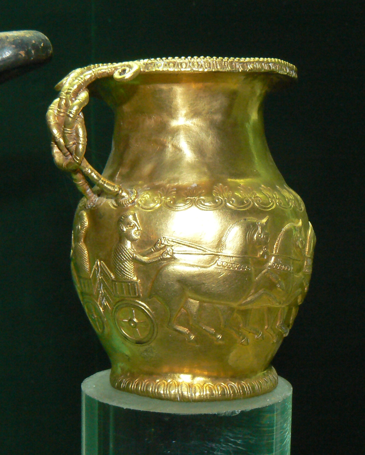 A golden pitcher, found in the Mogilanska Tumulus. An exhibit of the Vratsa History Museum